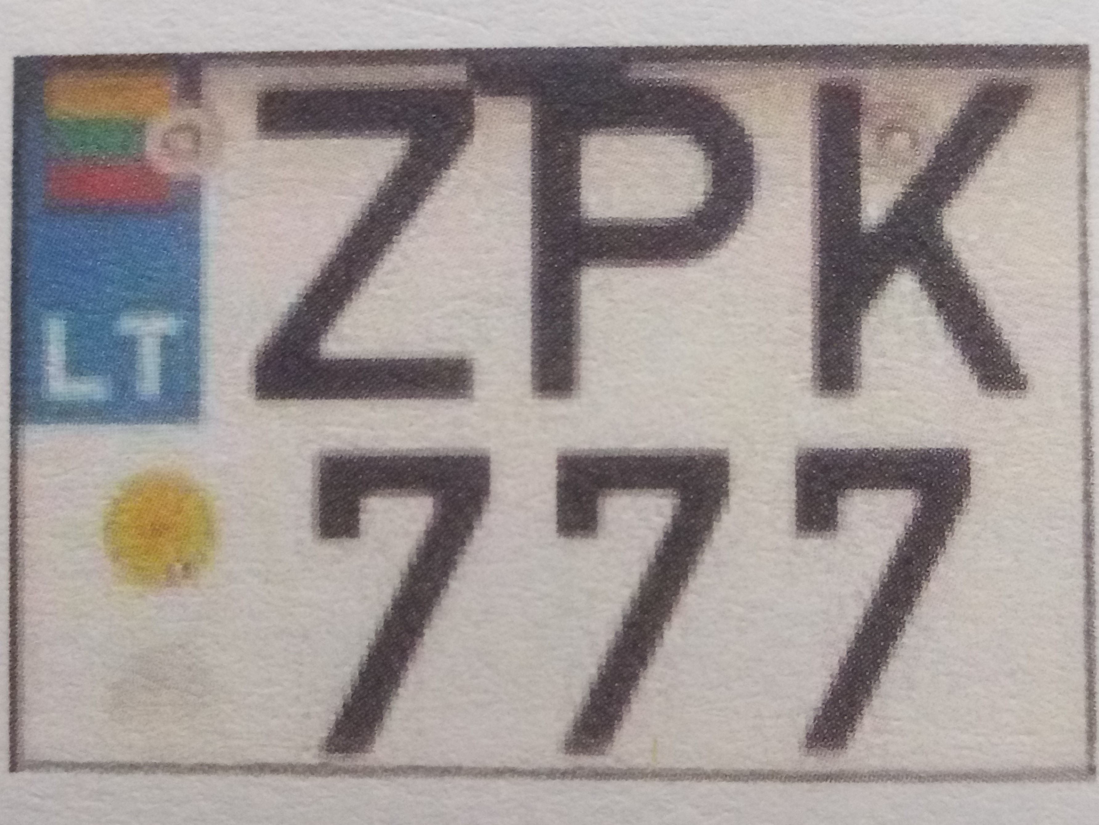 The second letter "P" indicates the county of Panevezys